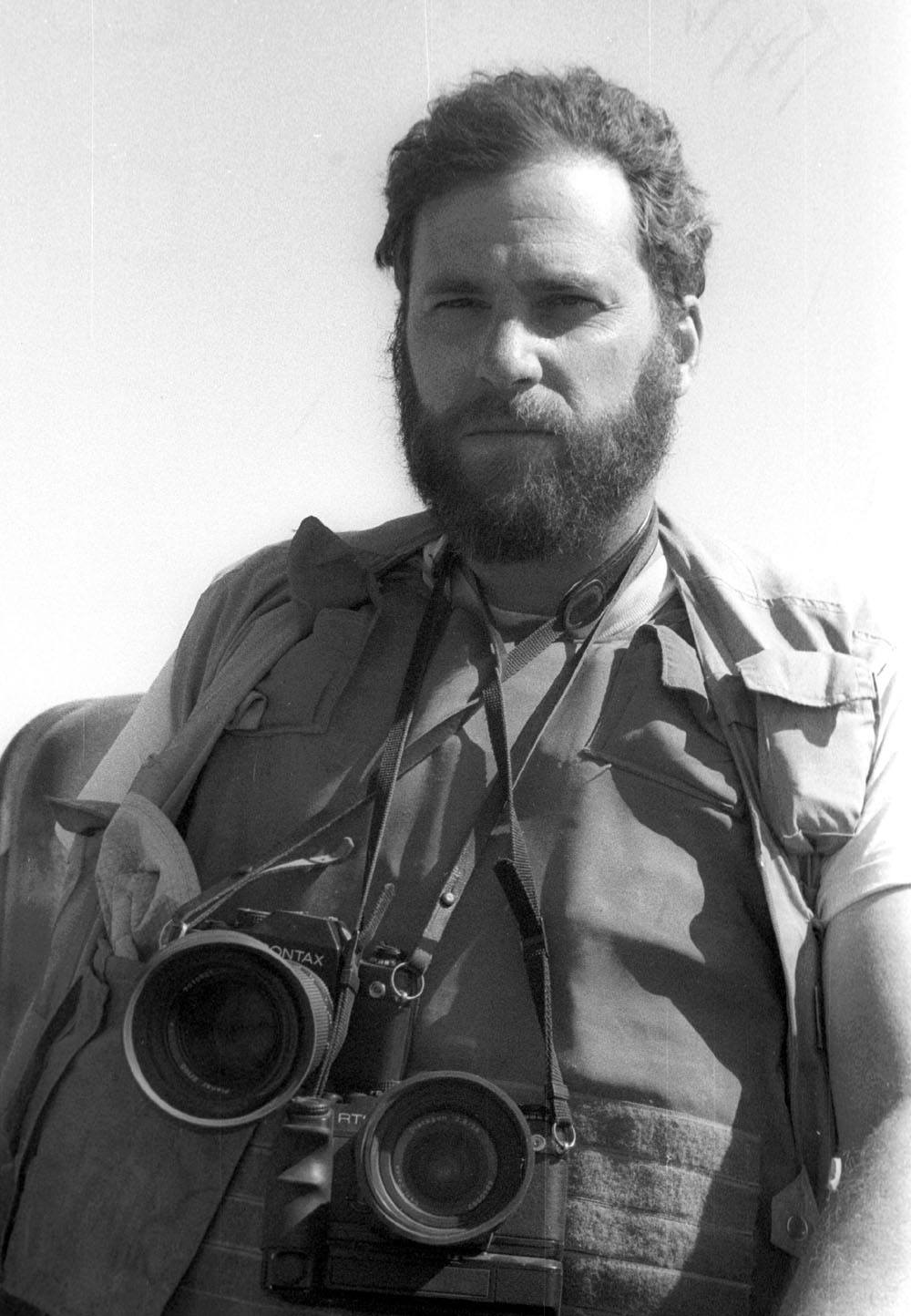 Jeff B. Harmon during the filming of the documentary Afgan about the Soviet experience in Afghanistan, 1988. Photo by Mikhail Evstafiev